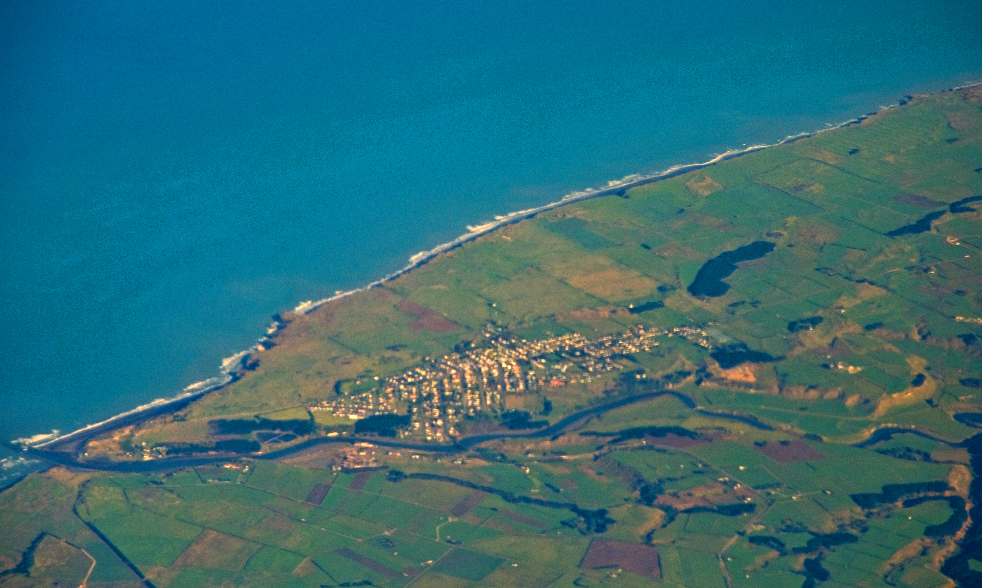 Patea, in Taranaki Region, New Zealand. En route Wellington to Auckland in an Air NZ 737